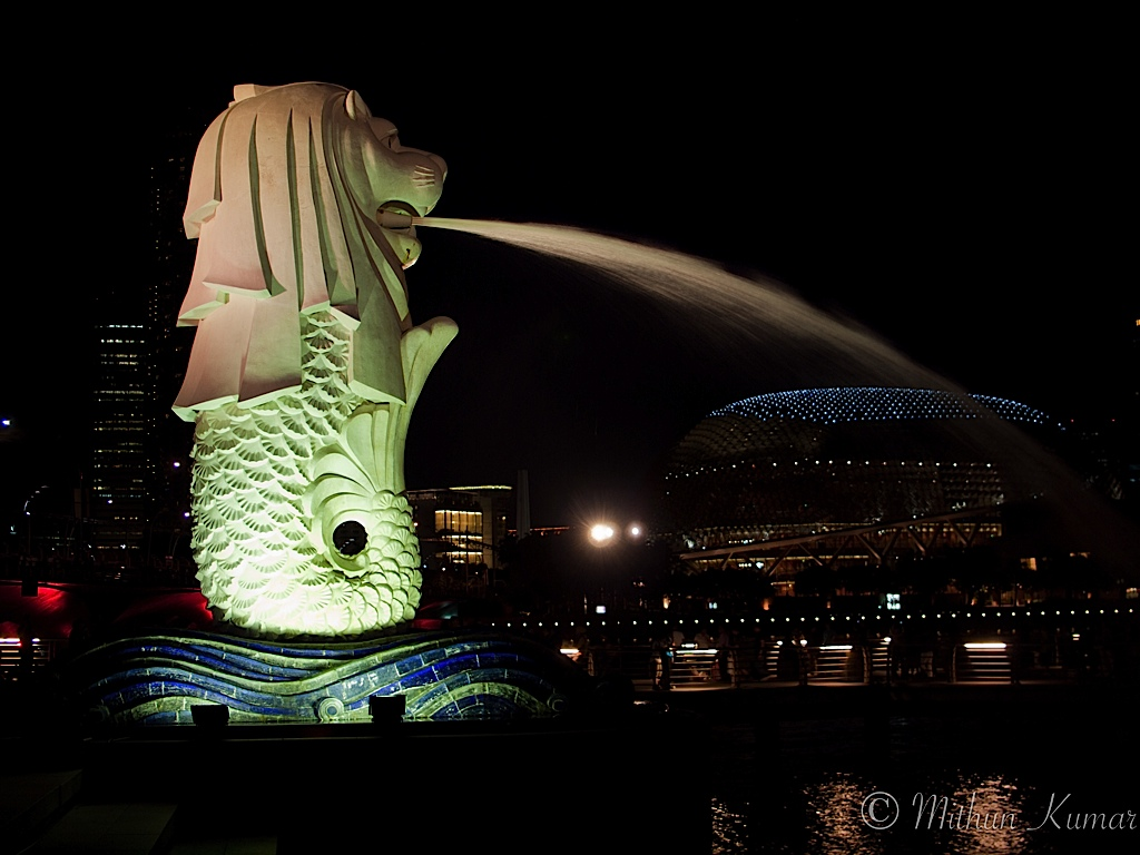 The icon of Singapore in the night lights.